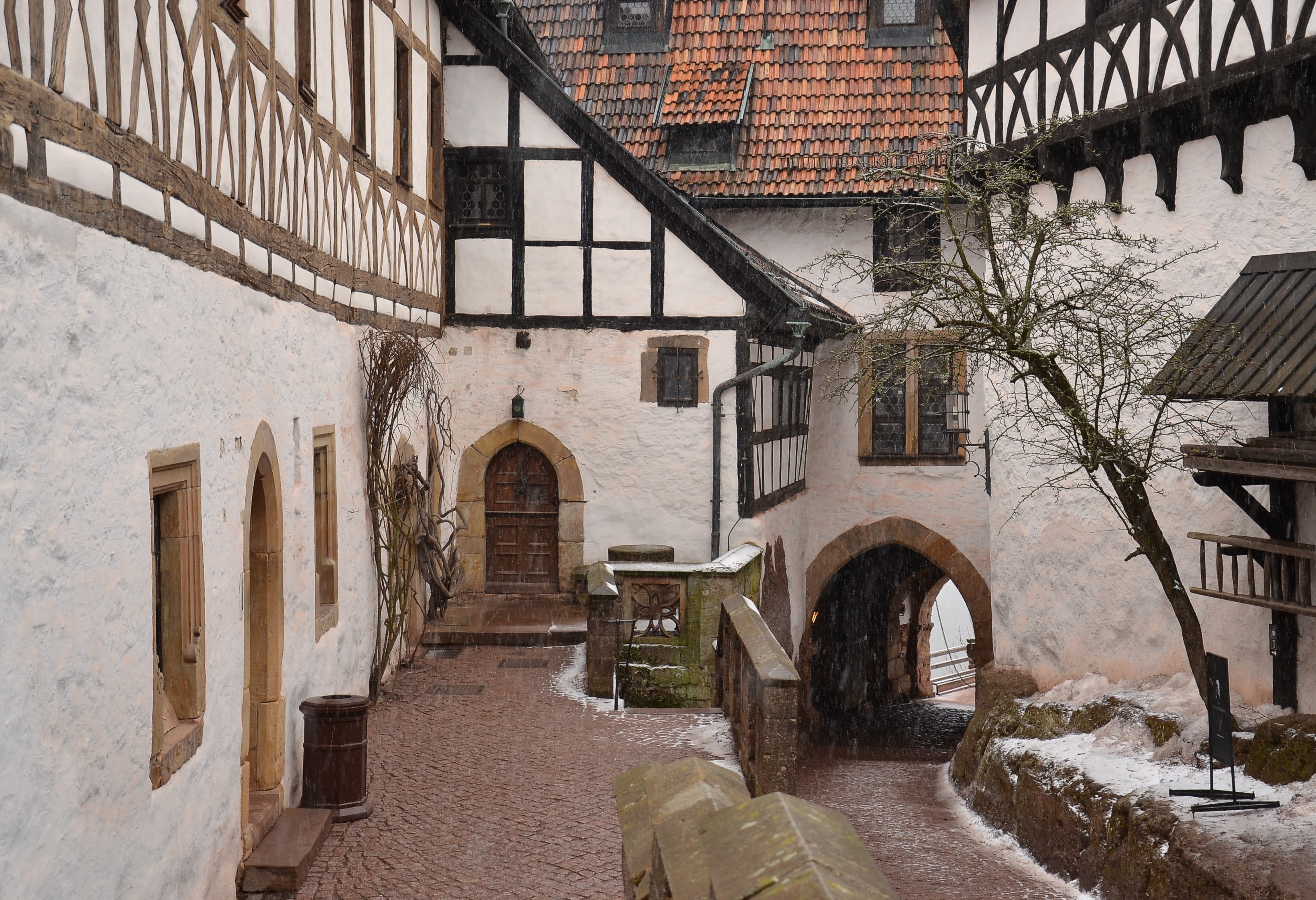 Entrance gate of Wartburg Castle